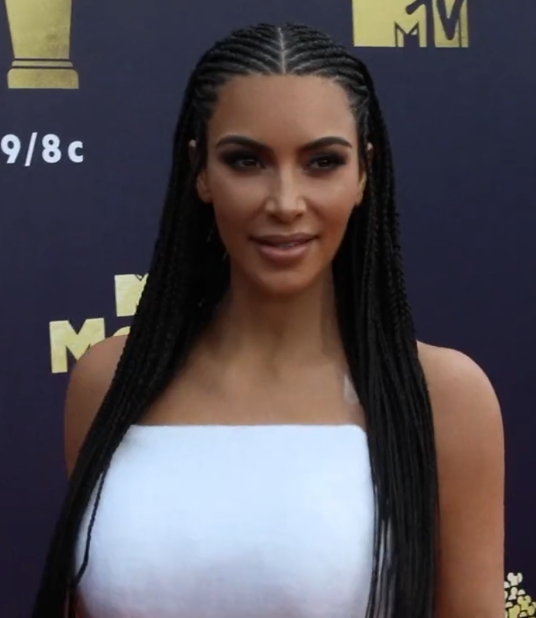 Kim Kardashain at 2018 MTV Movie & TV Awards